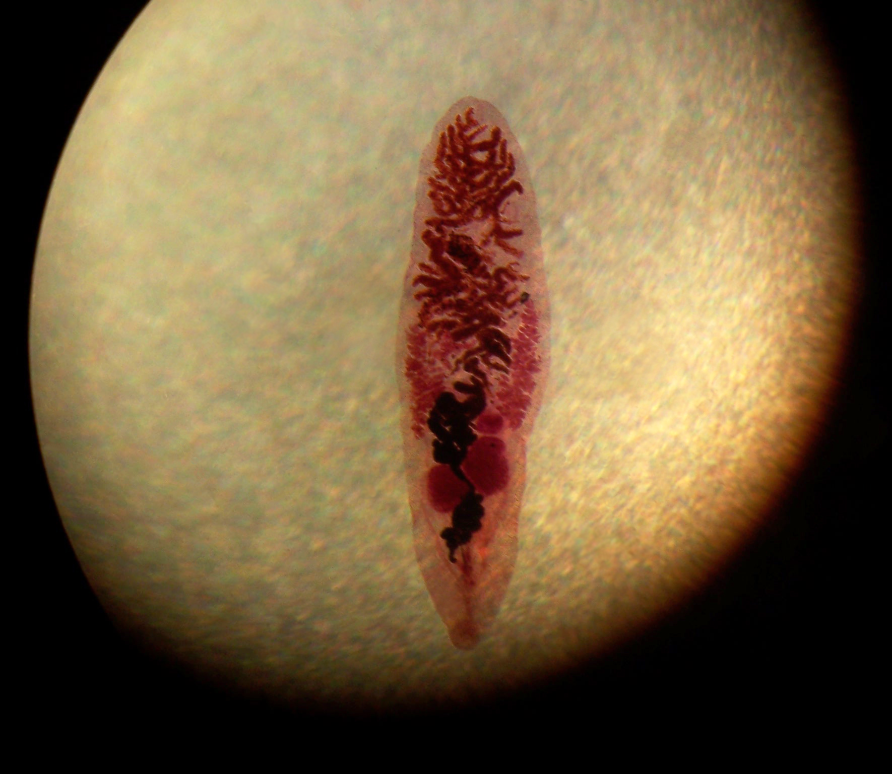 Dicrocoelium dendriticum, from teaching slides at the University of Edinburgh.The Lancet liver fluke (Dicrocoelium dendriticum) is a parasite fluke that tends to live in cattle or other grazing mammals.